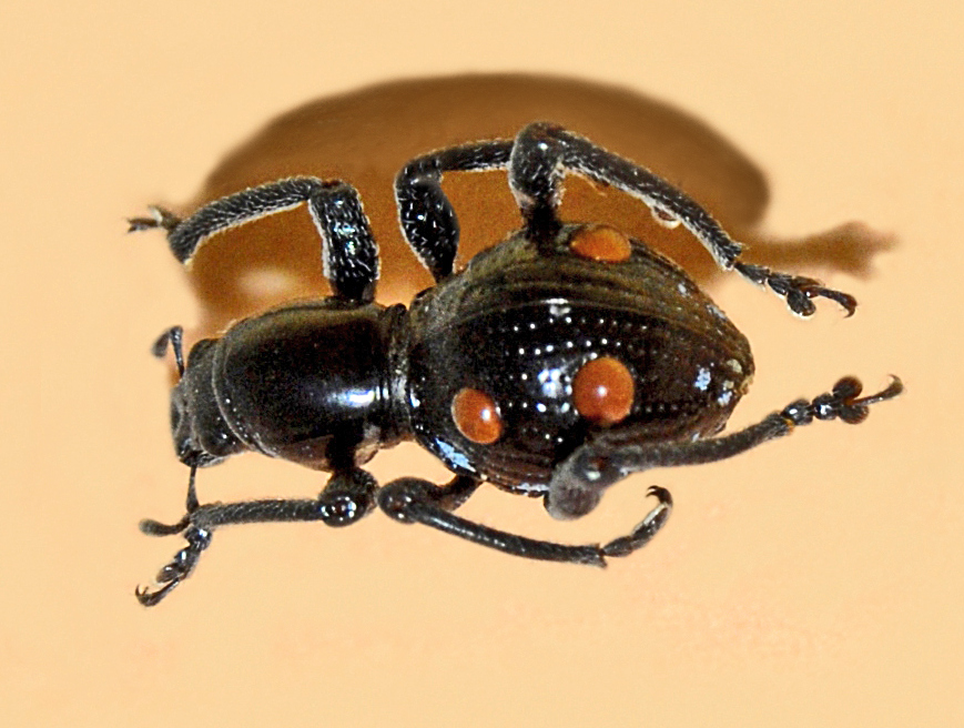 Museum specimen of Pantorhytes quadripustulatus on display at the Museo Civico di Storia Naturale di Milano